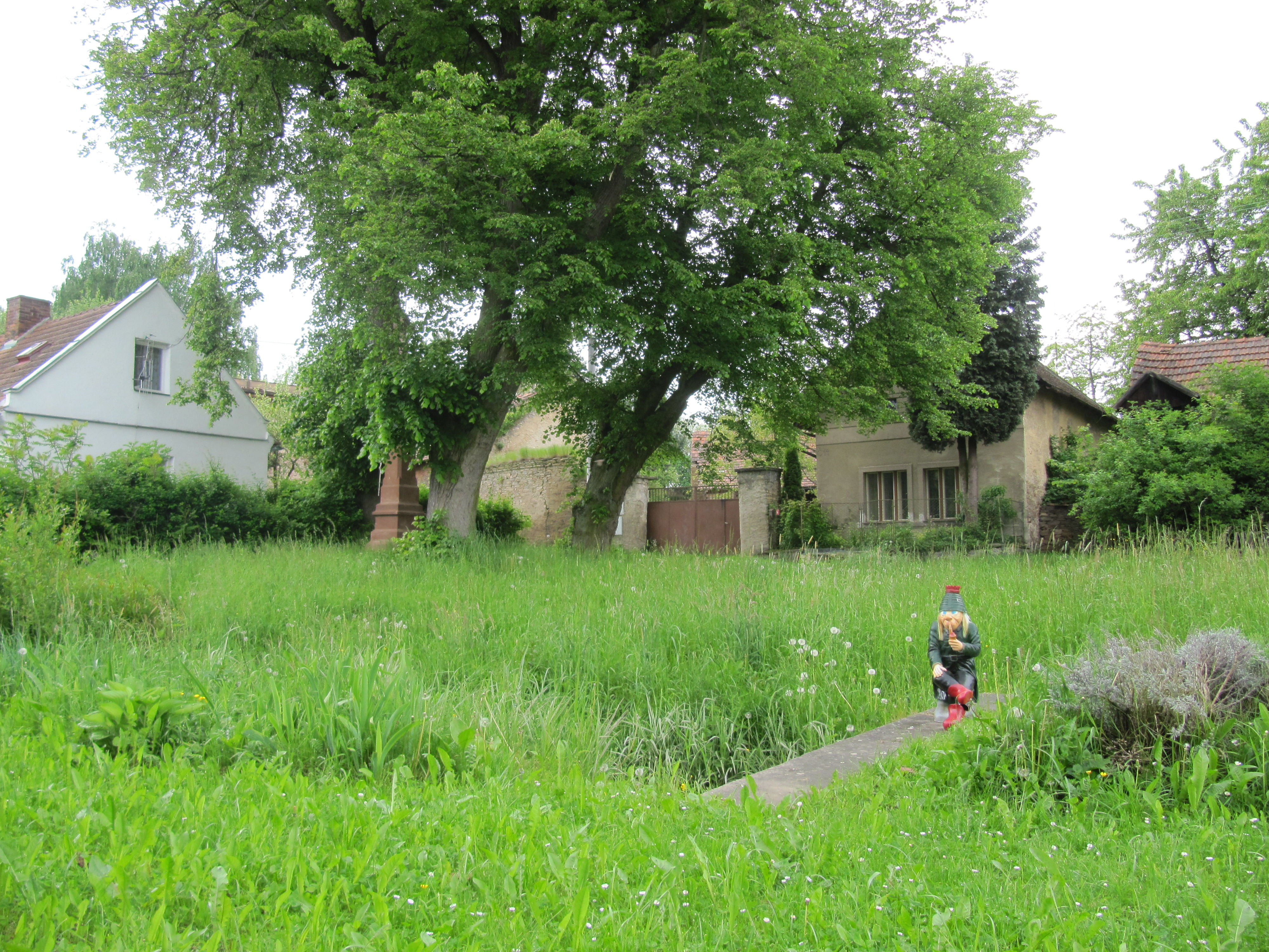 Zásmuky, Kolín District, Czech Republic, part Vršice. Village green.